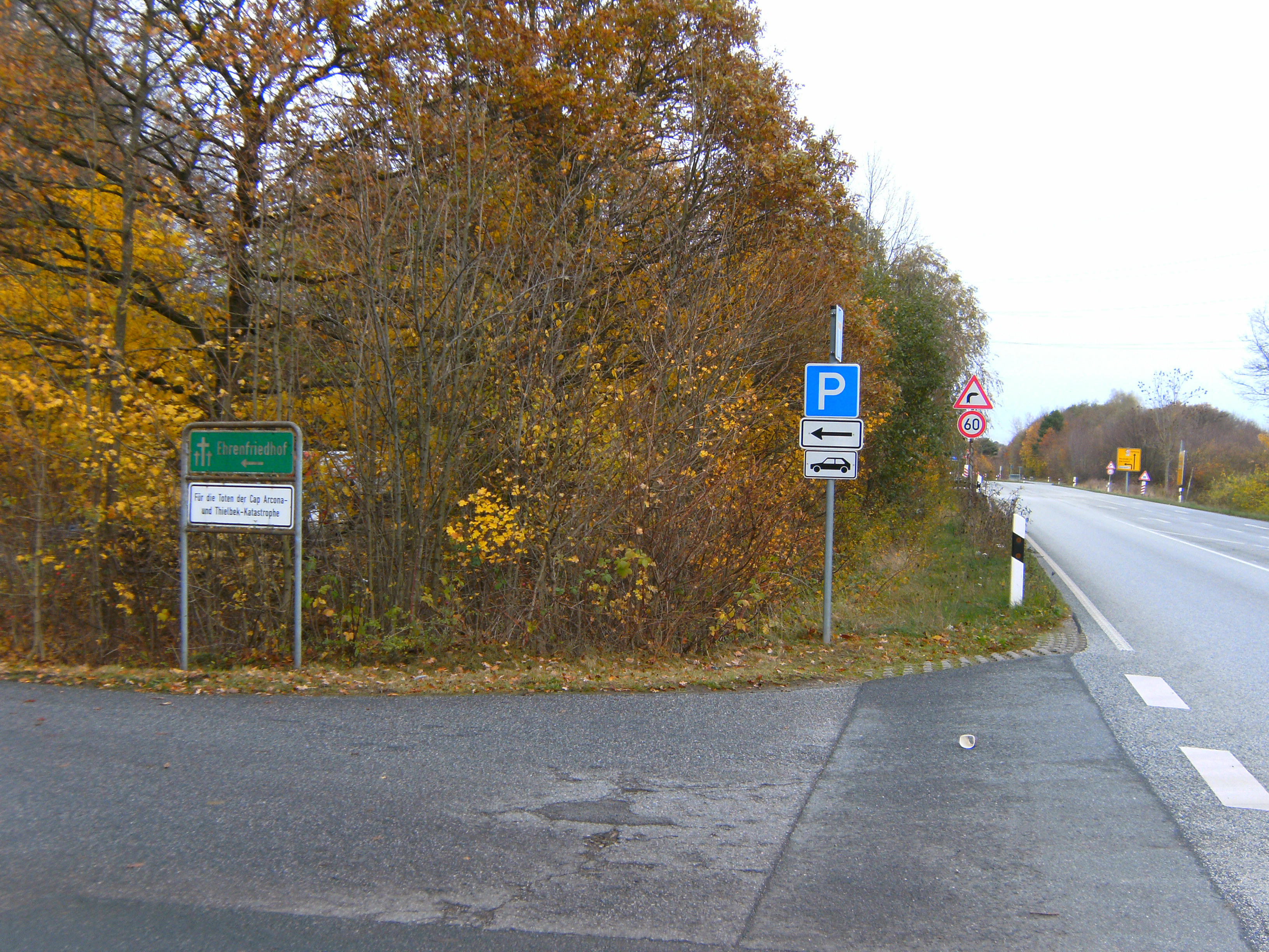 Informatory sign on cemetery (Ehrenfriedhof Cap Arcona in Scharbeutz-Haffkrug). This is one of the cemeteries for detained people on board of Cap Arcona ship who died by bombardment.